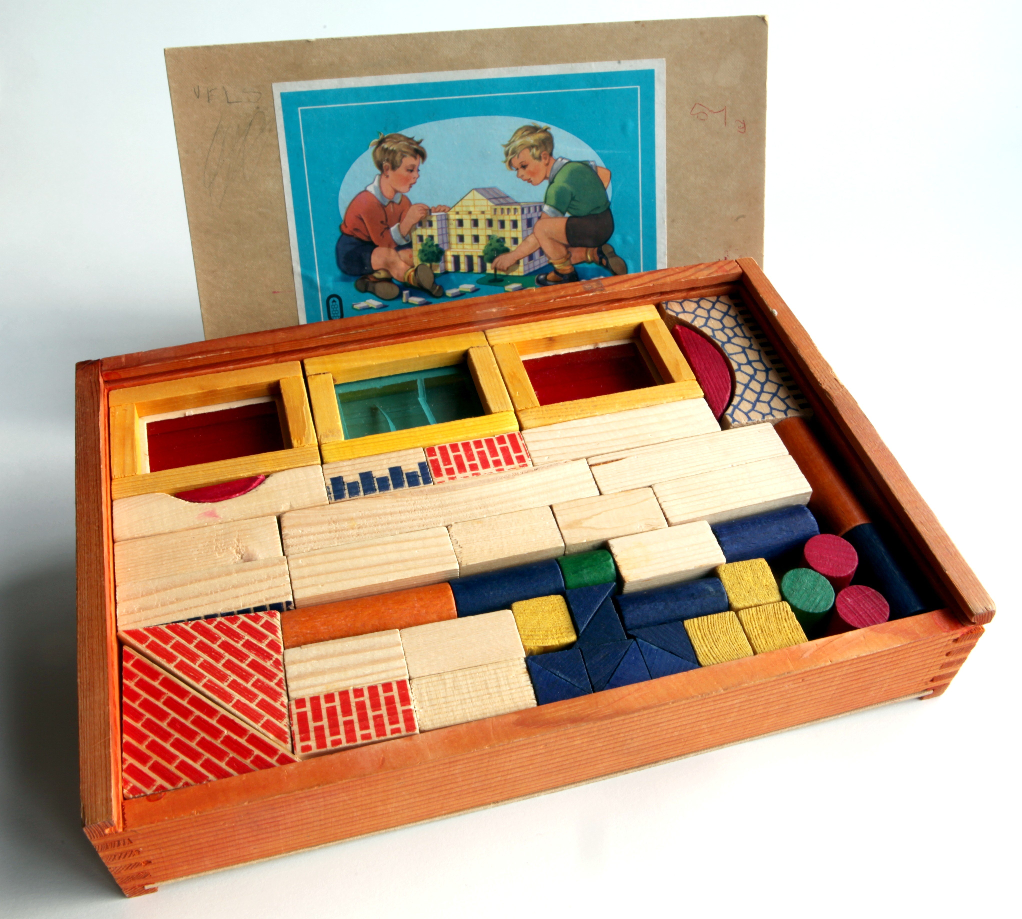 wooden children play construction blocks from late 1950s or early 1960s